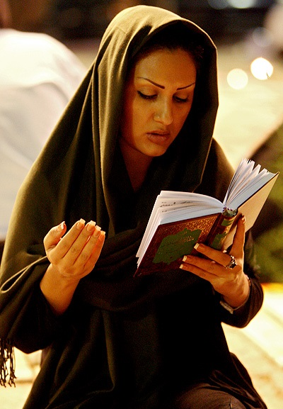 Laylat al-Qadr 19th Ramadan 1429 AH in Behesht-e Zahra, Tehran